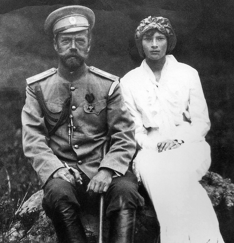 Emperor Nicholas II with his daughter Grand Duchess Tatiana Nikolaevna of Russia in 1914